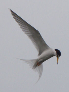 in summer, went to a city park from sea for breeding. He was flying and stopping over a lake in city park to get fish for his children.